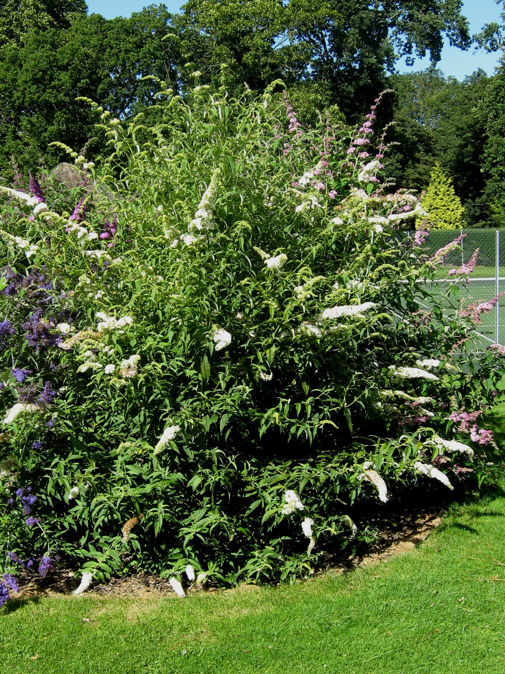 Photo of Buddleja cultivar 'Pixie White' taken at Longstock Park, UK, August 2012